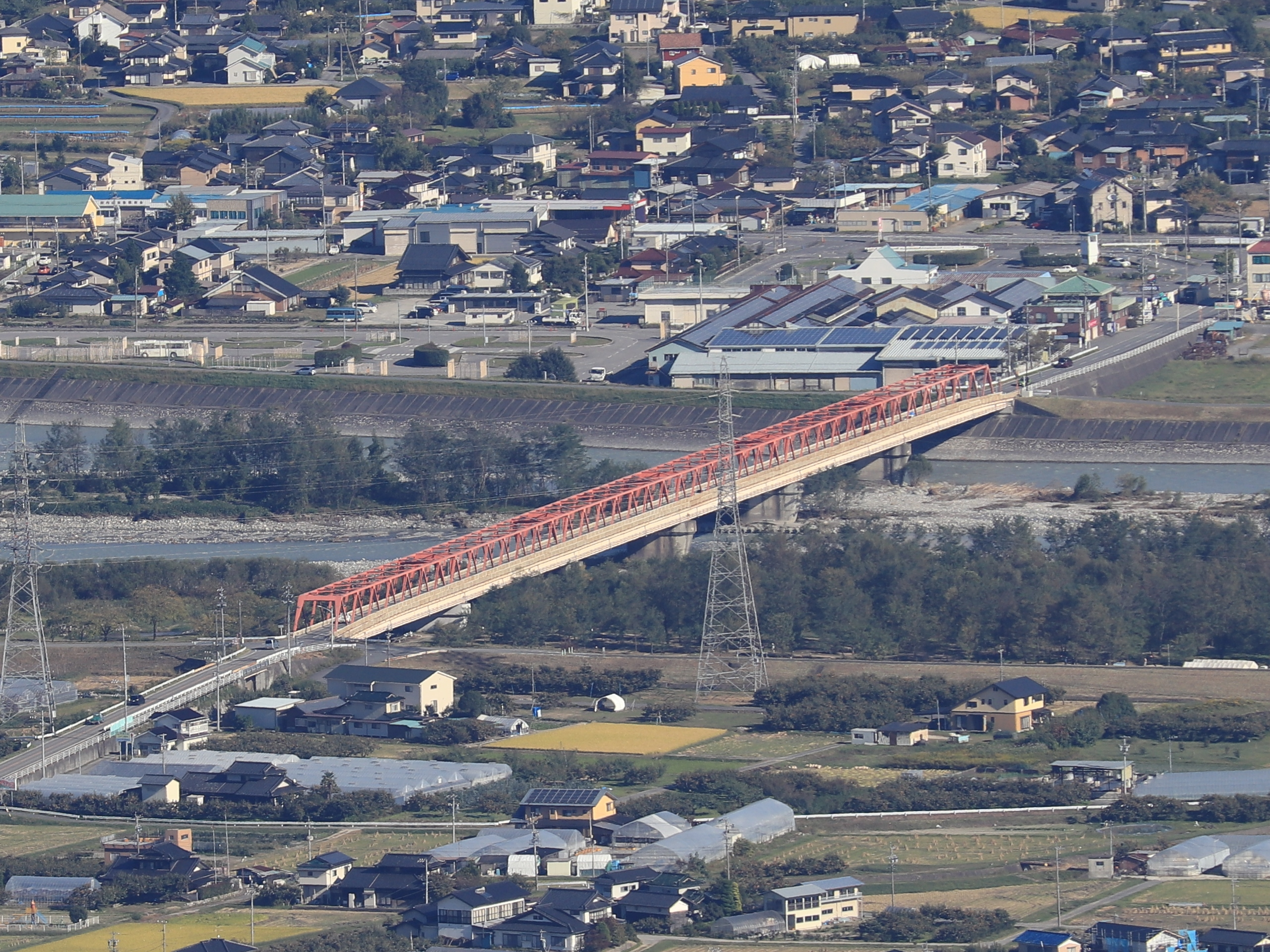 Ajima Bridge of Nagano Prefectural Road Route 251 over Tenryu River seen from Mount Kazakoshi (Mount Kokuzo) in Iida and Takagi, Nagano Prefecture, Japan.